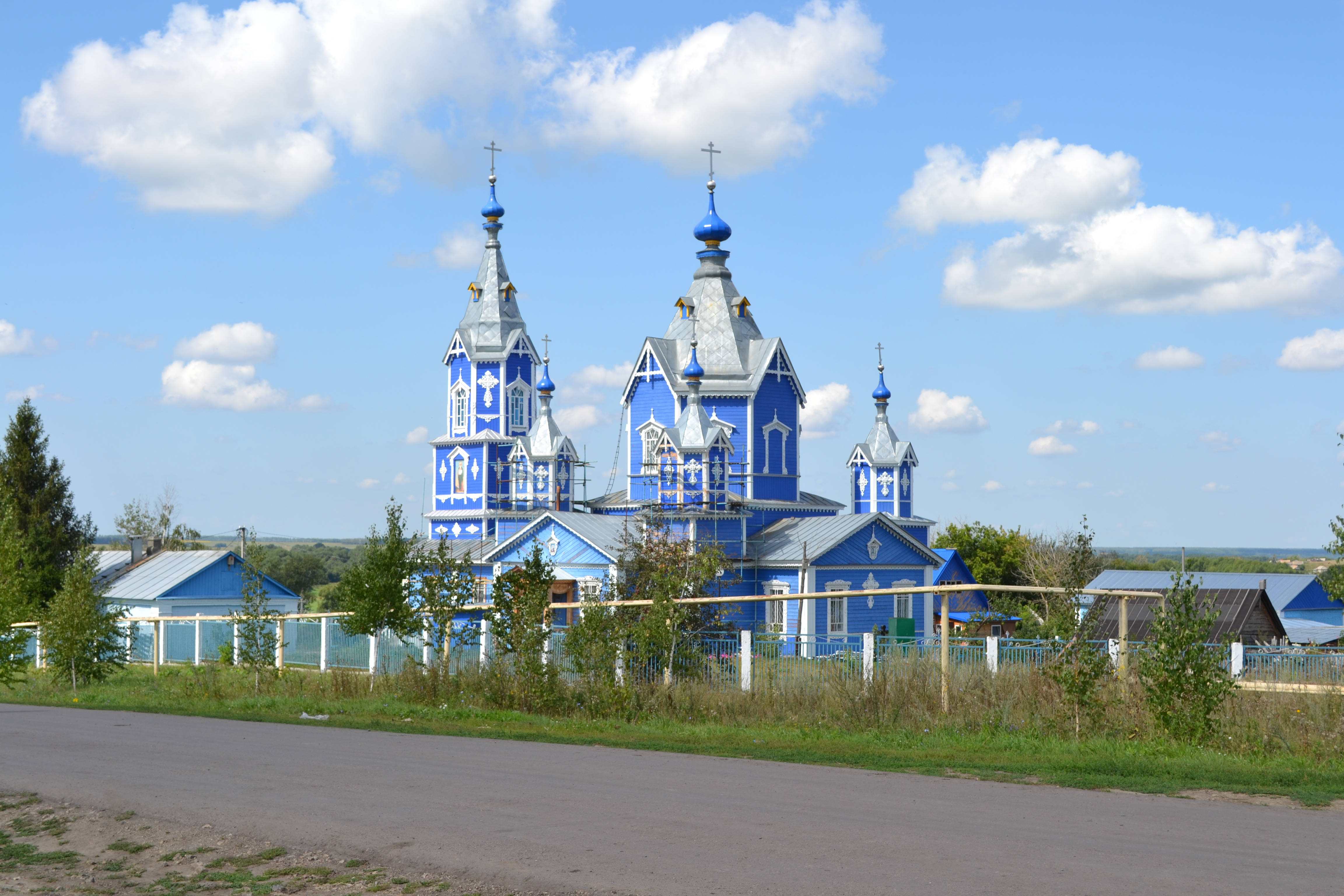 Wooden Church of the Theotokos of the Sign in Osino-Gay, Tambov Oblast, built in 1883.